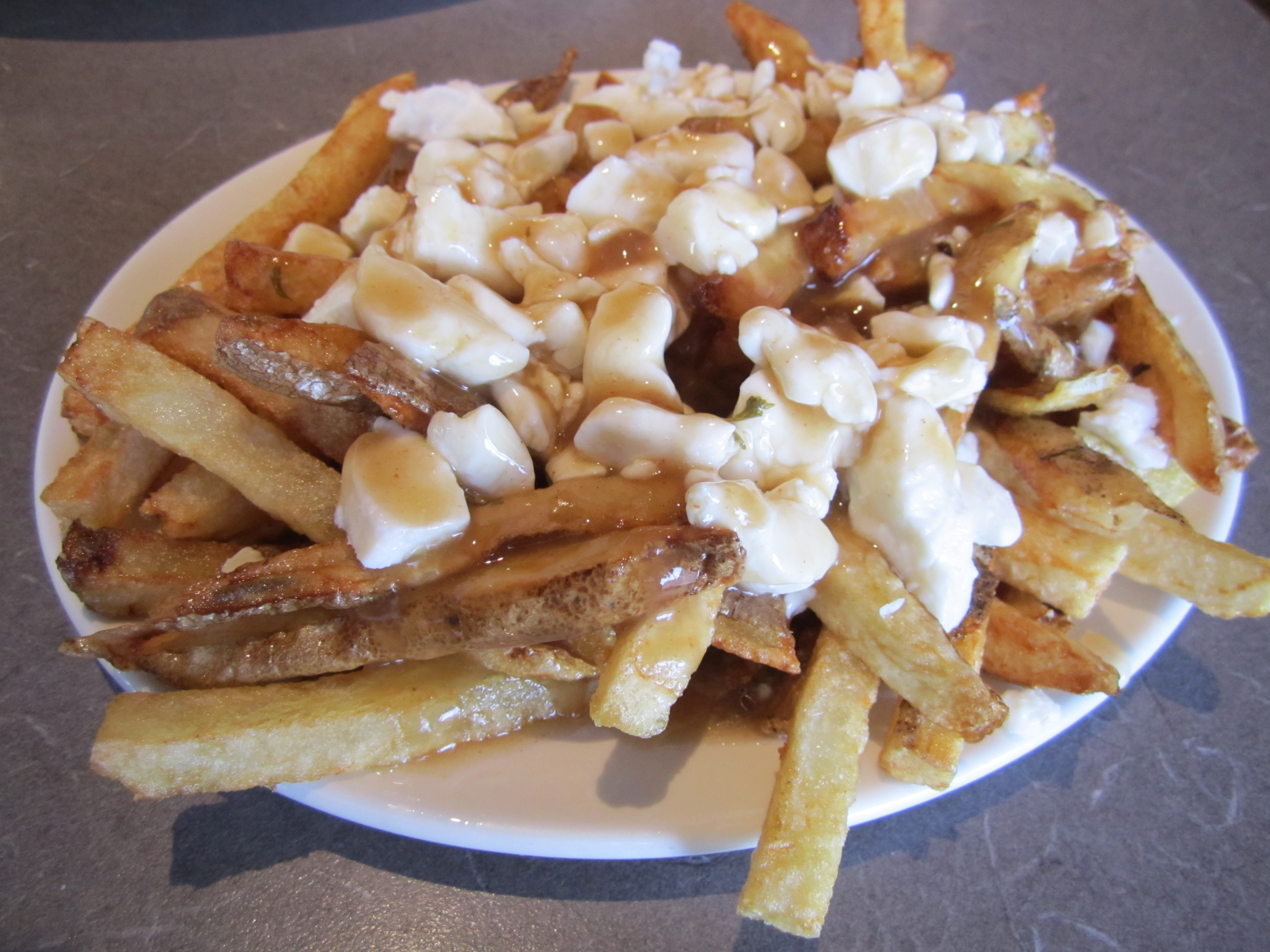 Cheese Factory